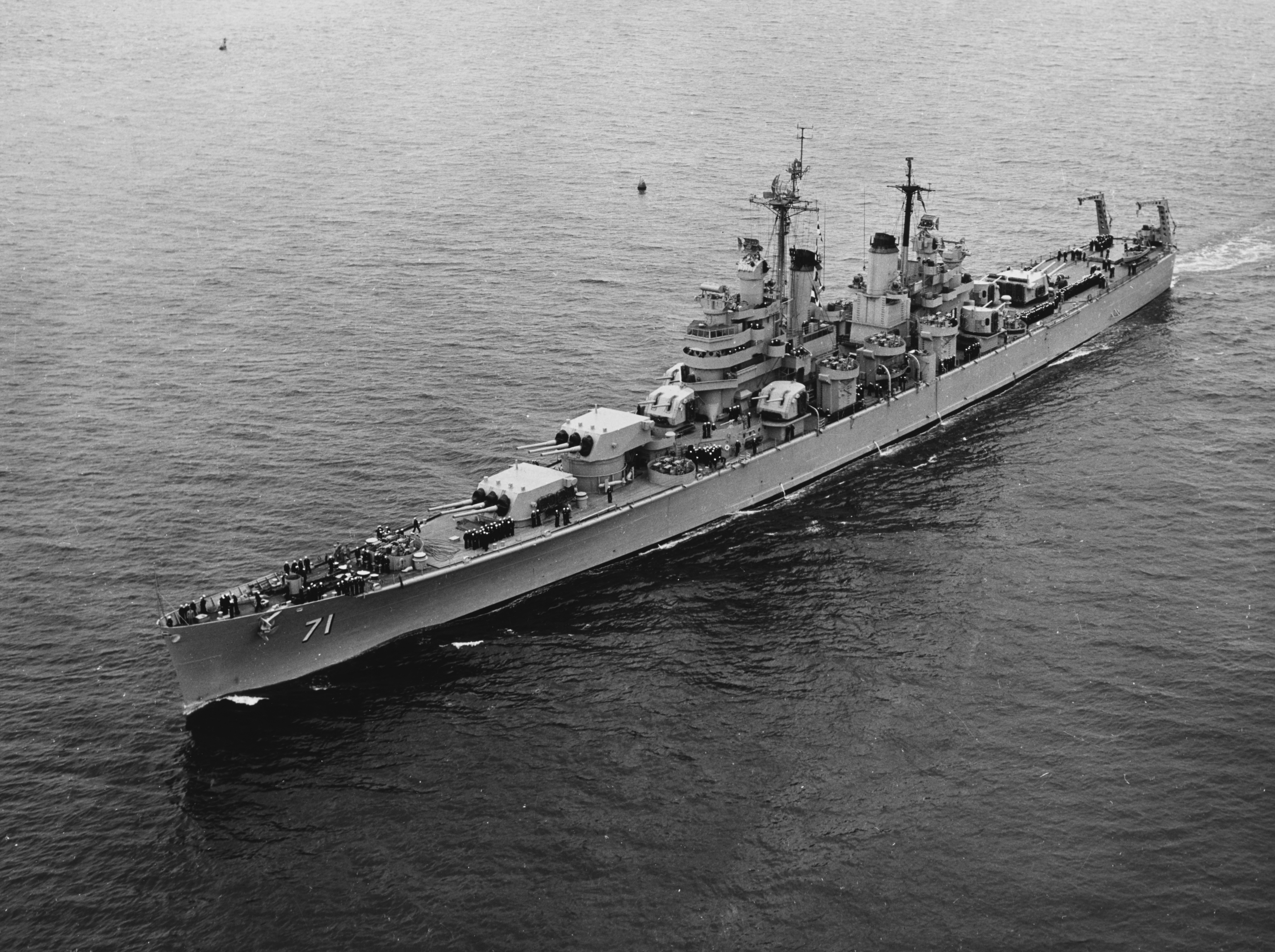 The U.S. Navy heavy cruiser USS Quincy (CA-71) underway in the Pacific Ocean during 1952-54. Quincy' appearance after her reactivation in 1952 had not changed much since her deactivation six years earlier: the 20 mm cannons and the catapults were removed and SPS-6 radar replaced SK-1 on the mast.